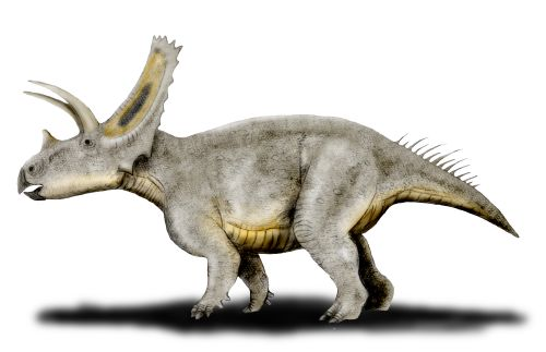 Titanoceratops